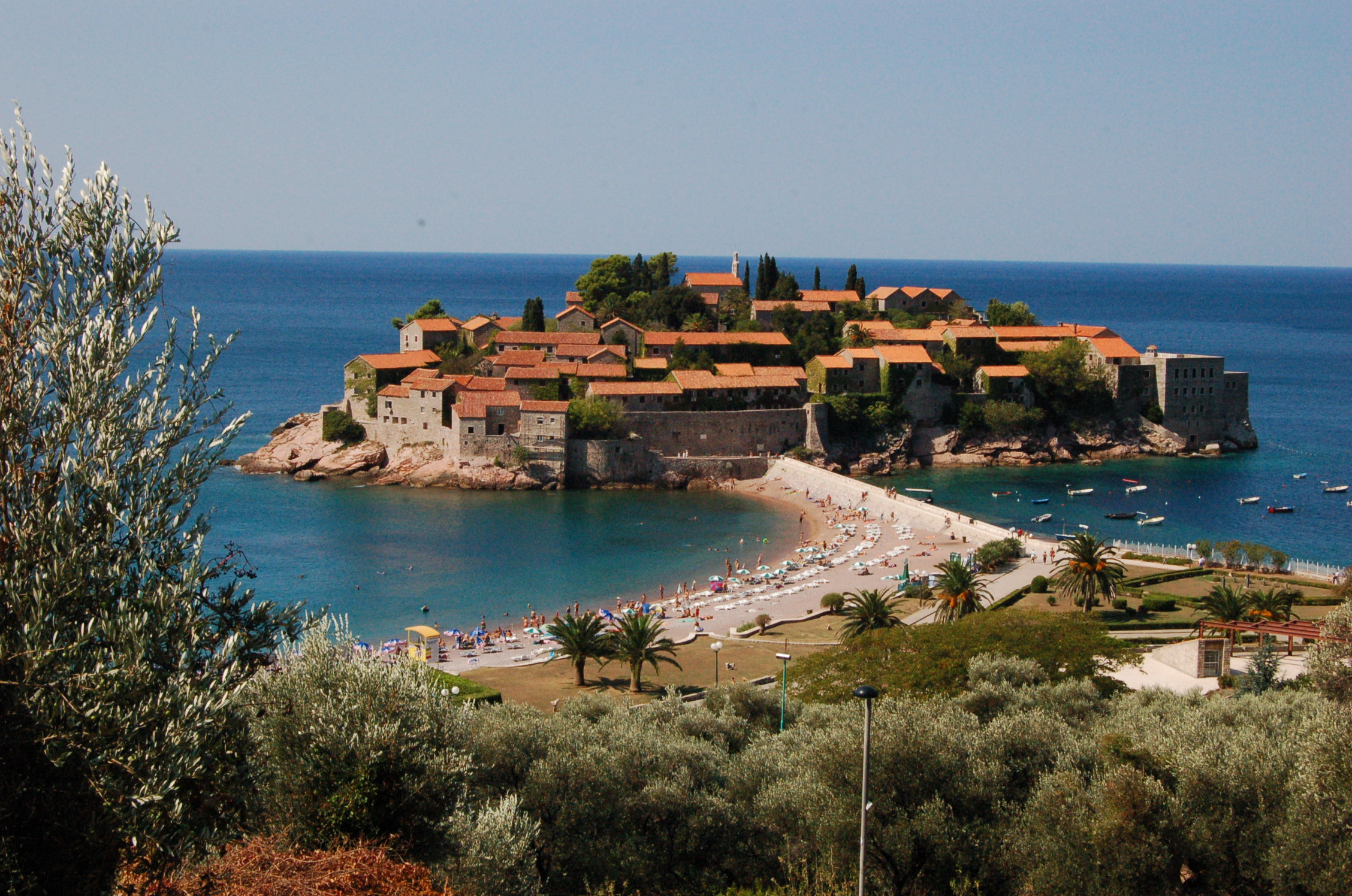 Sveti Stefan, former fisherman's village on the Adriatic coast of Montenegro, transformed into a luxury town-hotel.